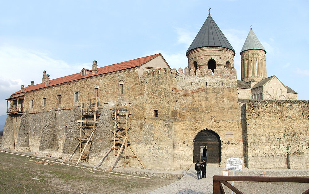 gate to cathedral of the 11th century - symbol of the blossoming of Georgian culture